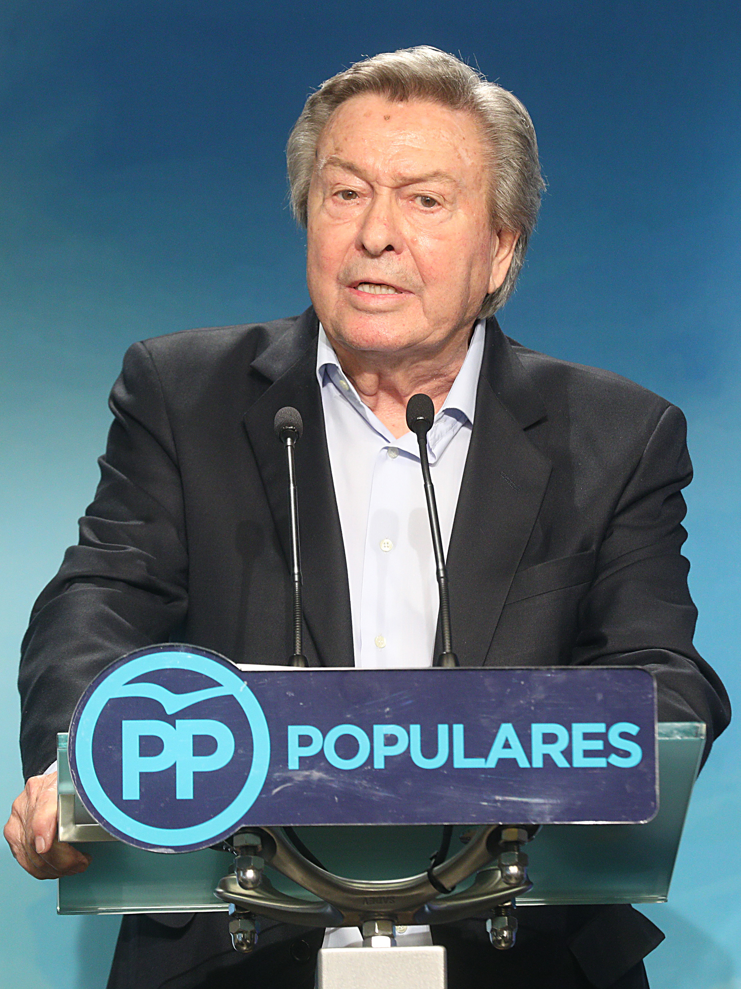 Luis de Grandes en una comparecencia tras conocerse los resultados de las primarias del Partido Popular